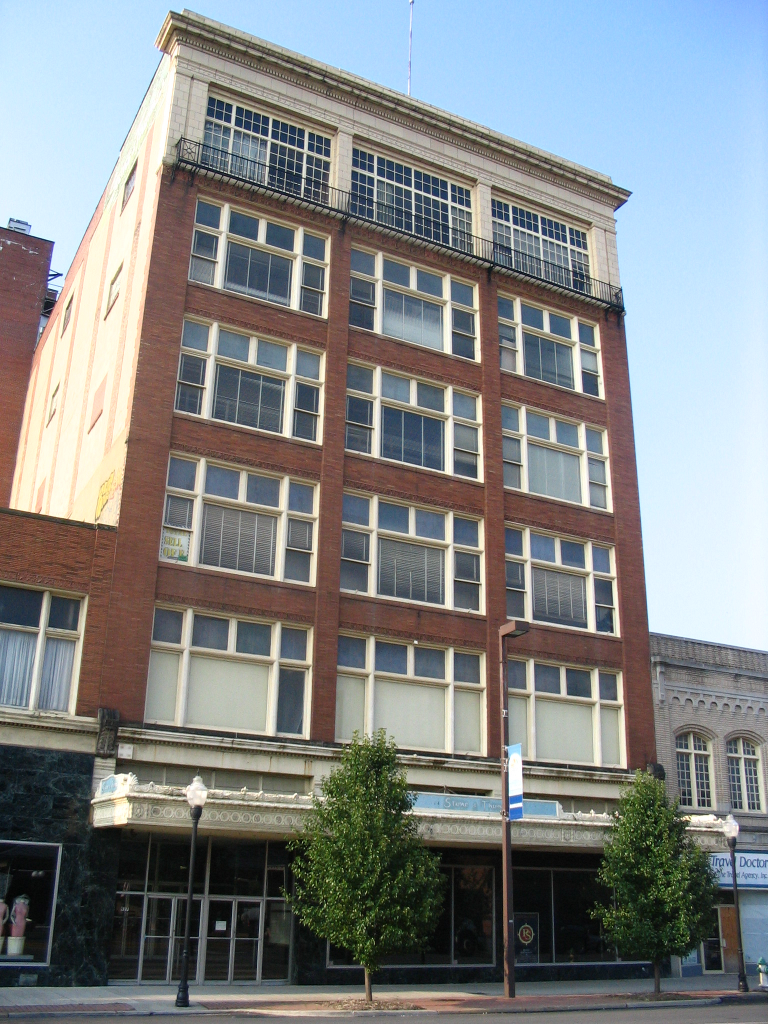 Former site of Stone & Thomas Department Store (Huntington, West Virginia)